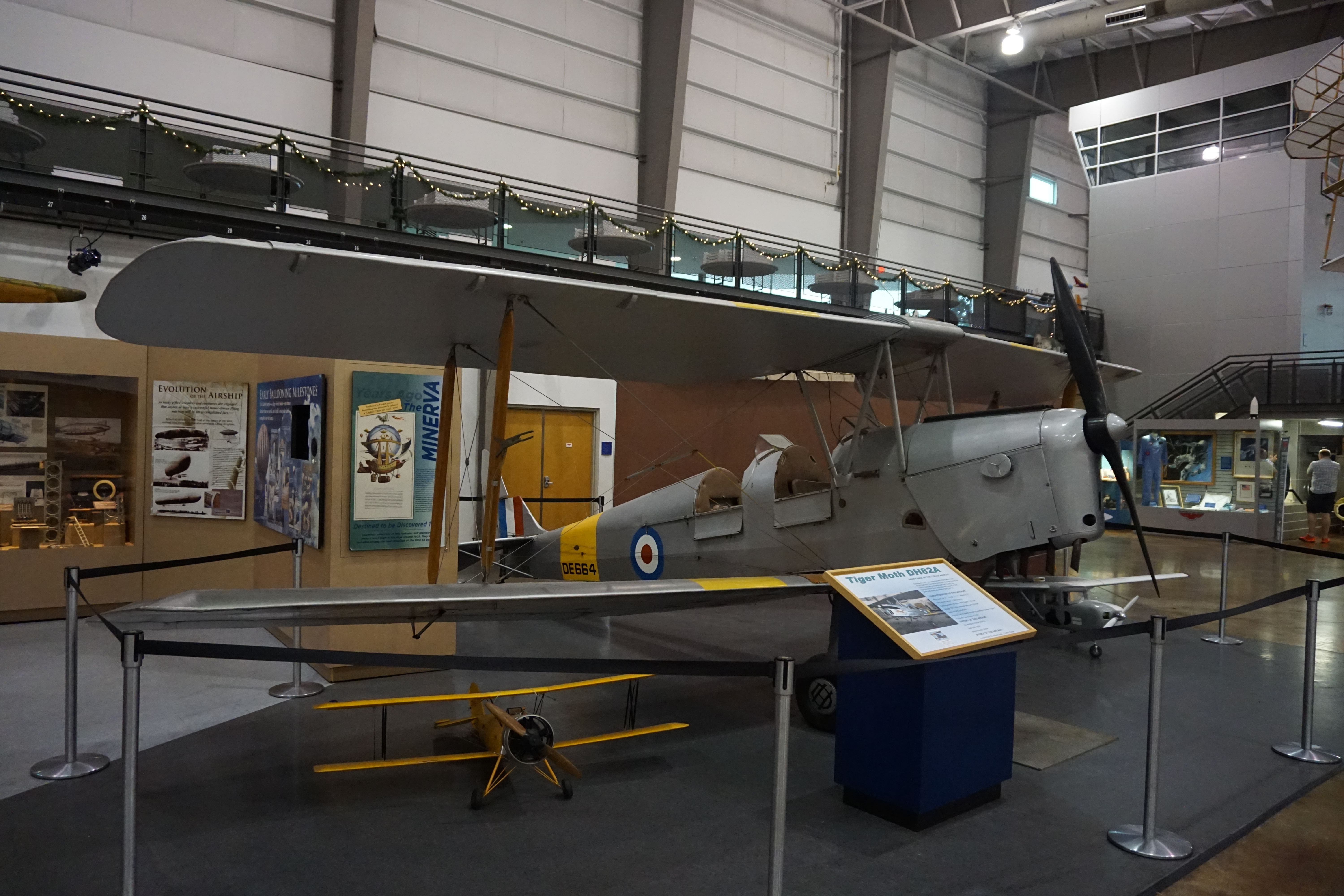 A de Havilland Tiger Moth on display at the Frontiers of Flight Museum at Dallas Love Field in Dallas, Texas (United States).